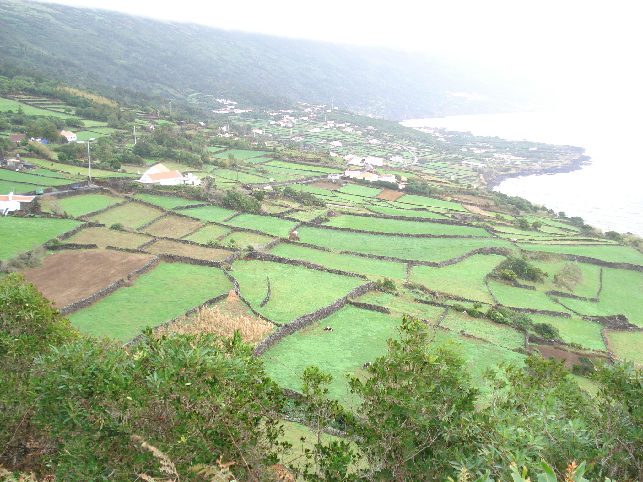 The civil parish of Ribeiras, looking to the southwest of Pico Island, Azores